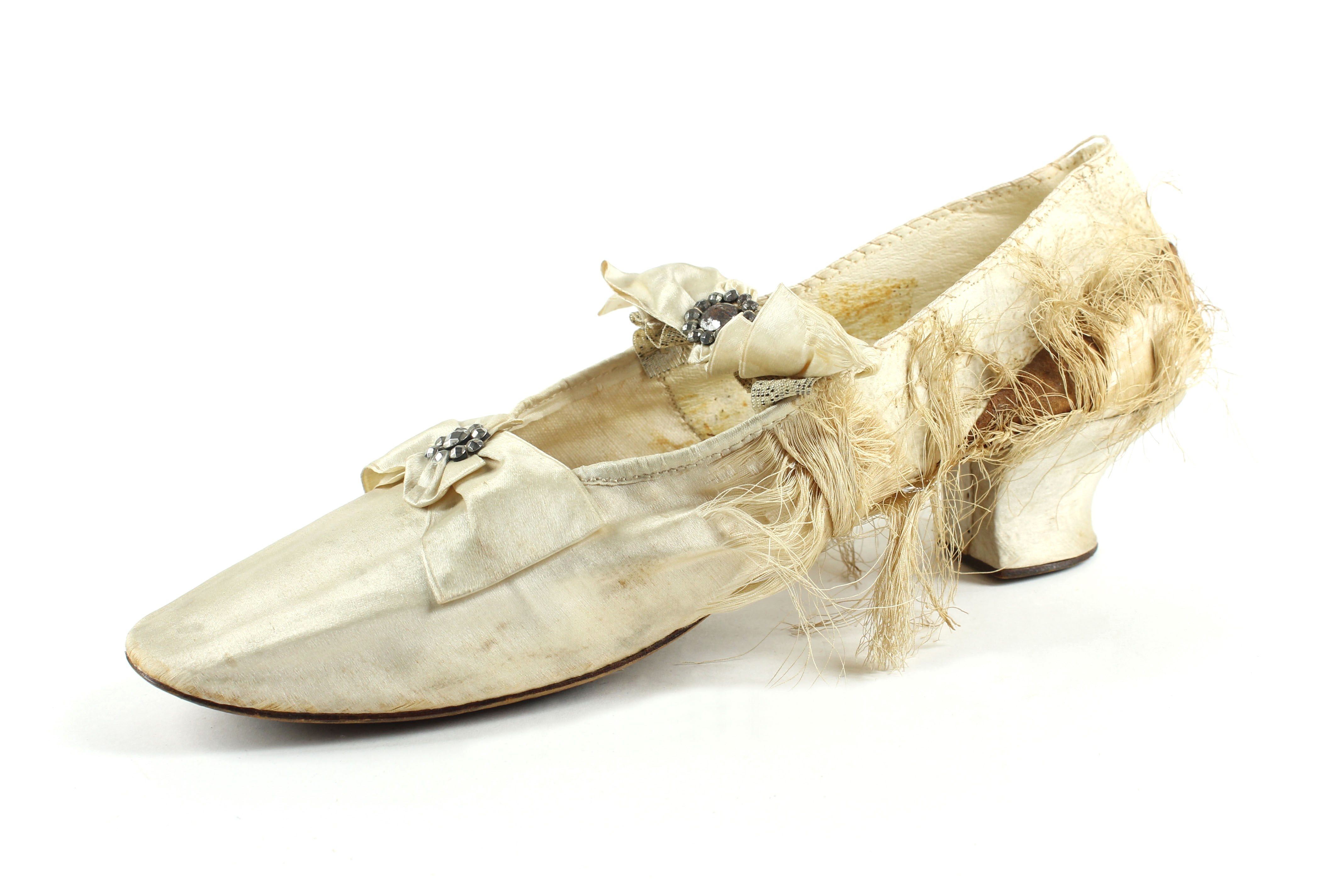 Woman's dancing shoe made in silk. Venice, 19th century